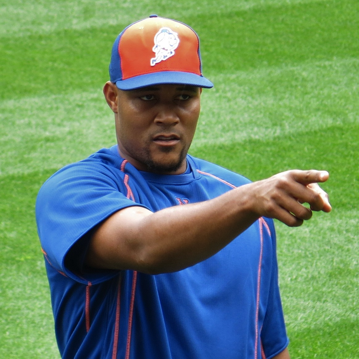 Jeurys Familia with the Mets on July 31, 2016